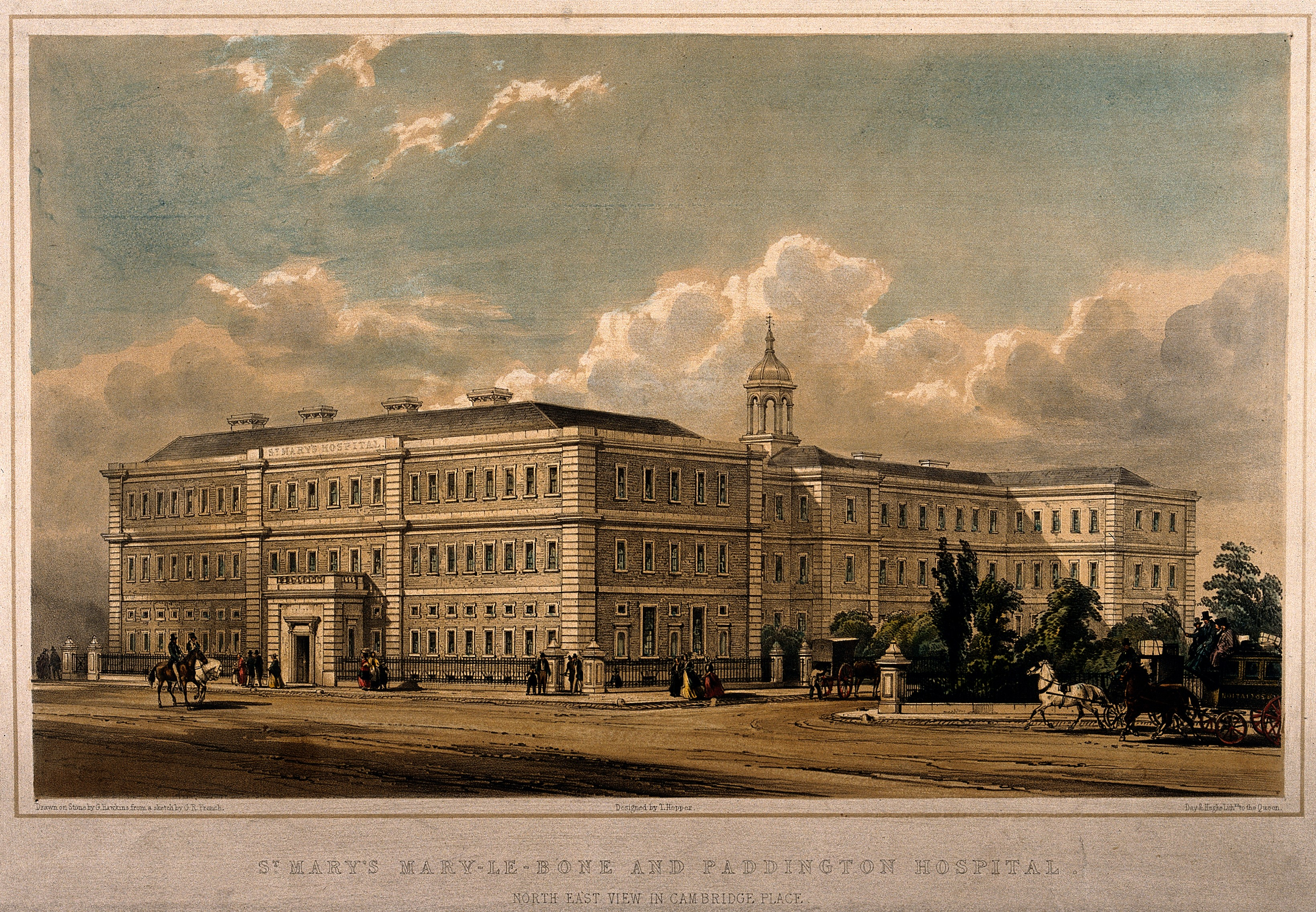 St Mary's Hospital, Paddington, London. Coloured lithograph by G. Hawkins after G. R. French. Iconographic Collections Keywords: George Hawkins; George Russell French; St Mary's Hospital (Paddington); Thomas Hopper